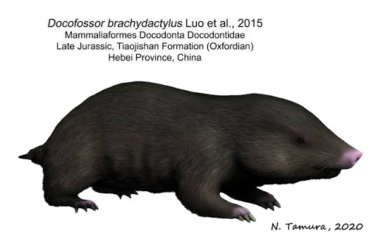 Docofossor brachydactylus Luo et al., 2015 Systematics: Synapsida Therapsida Cynodontia Mammaliaformes Docodonta Docodontidae Size: 9 cm Type Horizon and Locality: Late Jurassic, Tiaojishan Formation (Oxfordian) Hebei Province, China Type Specimen: BMNH 131735A, a partial articulated skeleton Docofossor ("Digging Docodont") is a mammaliaform which shows digging adaptations similar to modern golden moles. March 15, 2020 References: Luo, Z. X., Meng, Q. J., Ji, Q., Liu, D., Zhang, Y. G., & Neander, A. I. (2015). Evolutionary development in basal mammaliaforms as revealed by a docodontan. Science, 347(6223), 760-764. All illustrations on this site are copyrighted to Nobu Tamura. The low resolution versions of the images are licensed under Creative Commons Attribution- ShareAlike (CC BY-SA) license meaning that you are free to use them as long as you properly credit the author (© N. Tamura). High resolution versions are available upon request. Questions: contact me at nobu dot tamura at yahoo dot com.